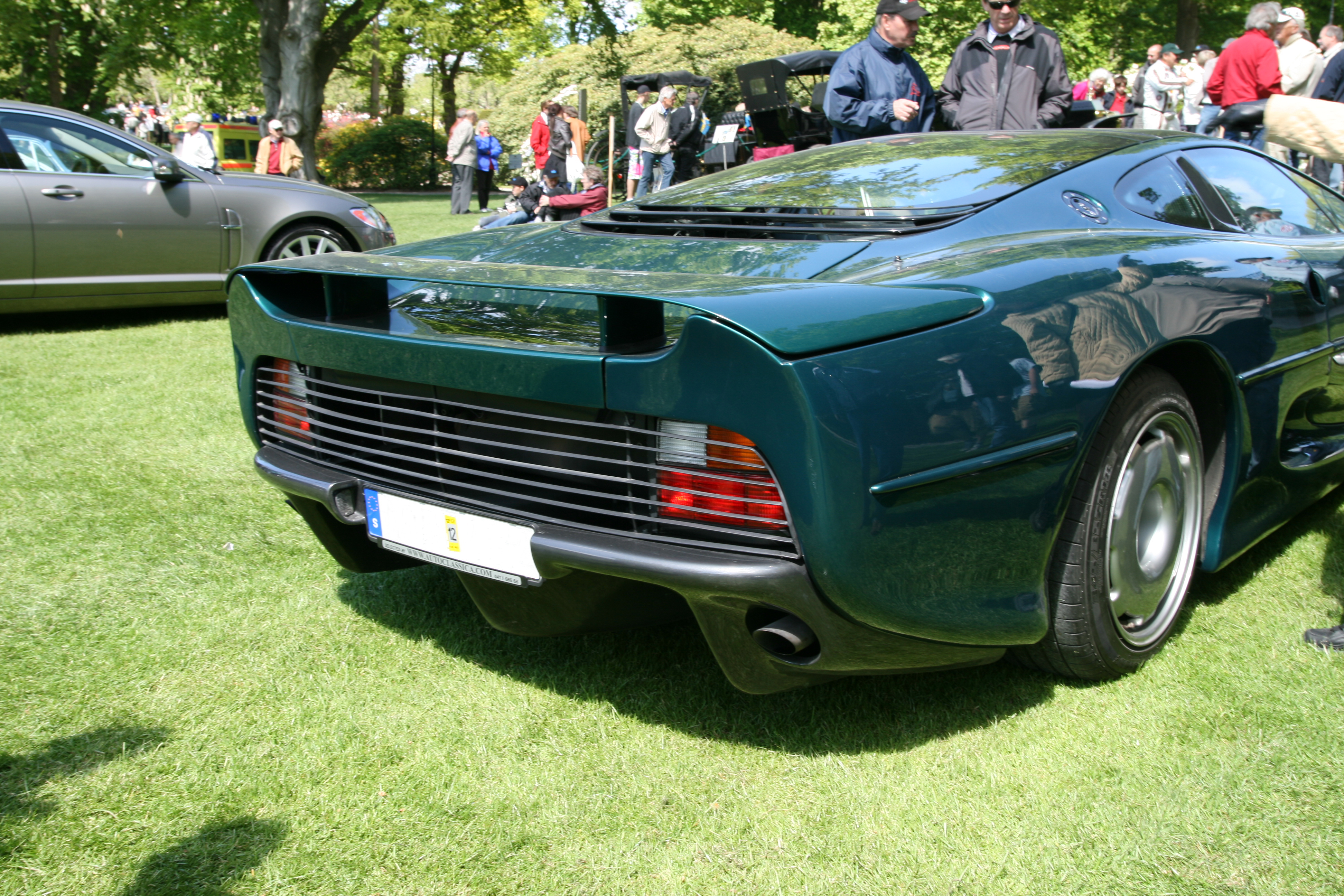 Rear right view of a 1994 Jaguar XJ220 parked at the Sofiero Classic car show at Sofiero castle in Helsingborg, Sweden.